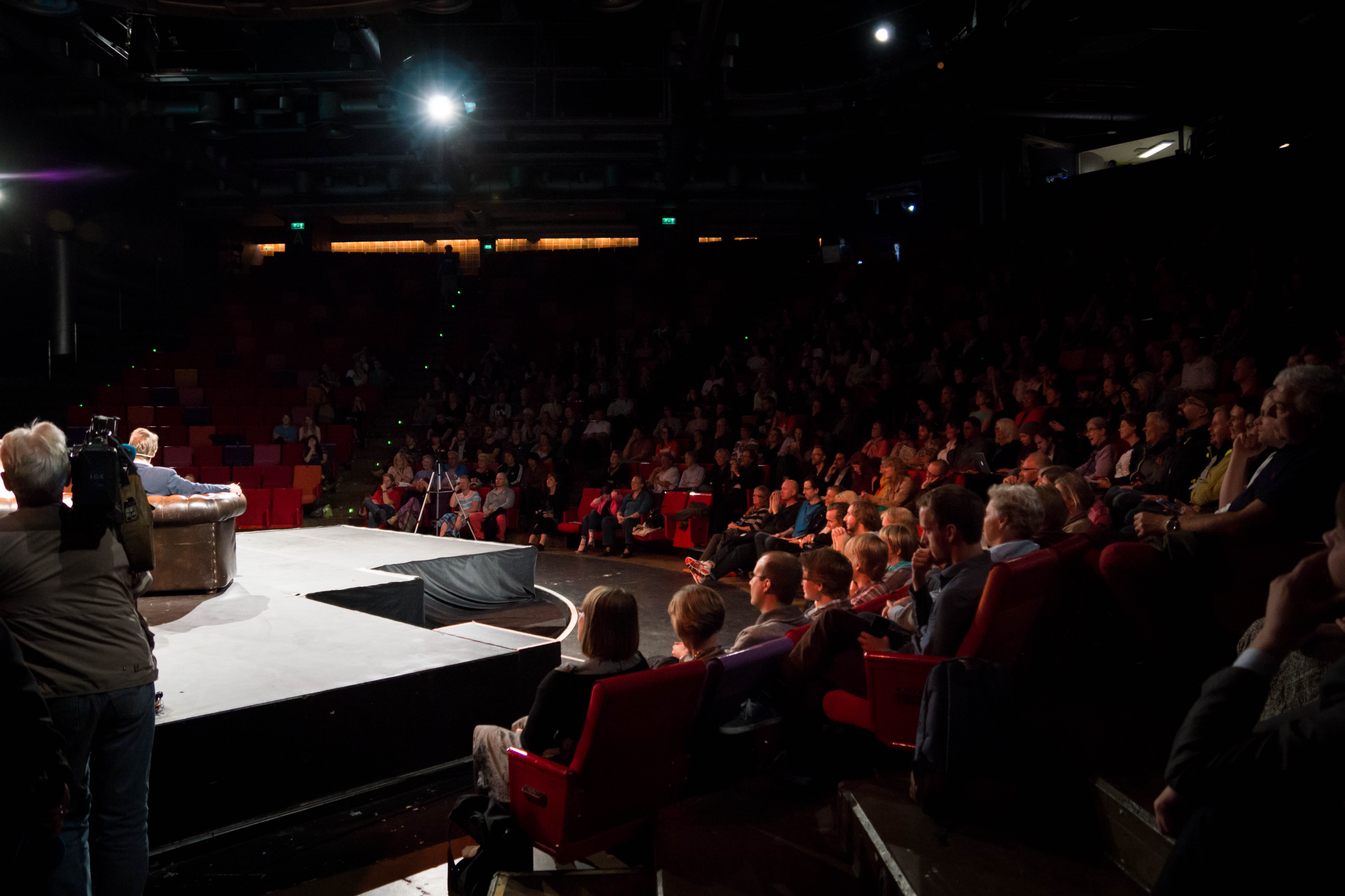 The audience when Eva Joly, Heidi Hautala and Rasmus Hansson spoke at Chateau Neuf in Oslo, September 1. 2013